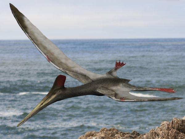 Aerodactylus scolopaciceps (based on a specimen previously referred to Pterodactylus kochi), late Jurassic of Germany. Digital.